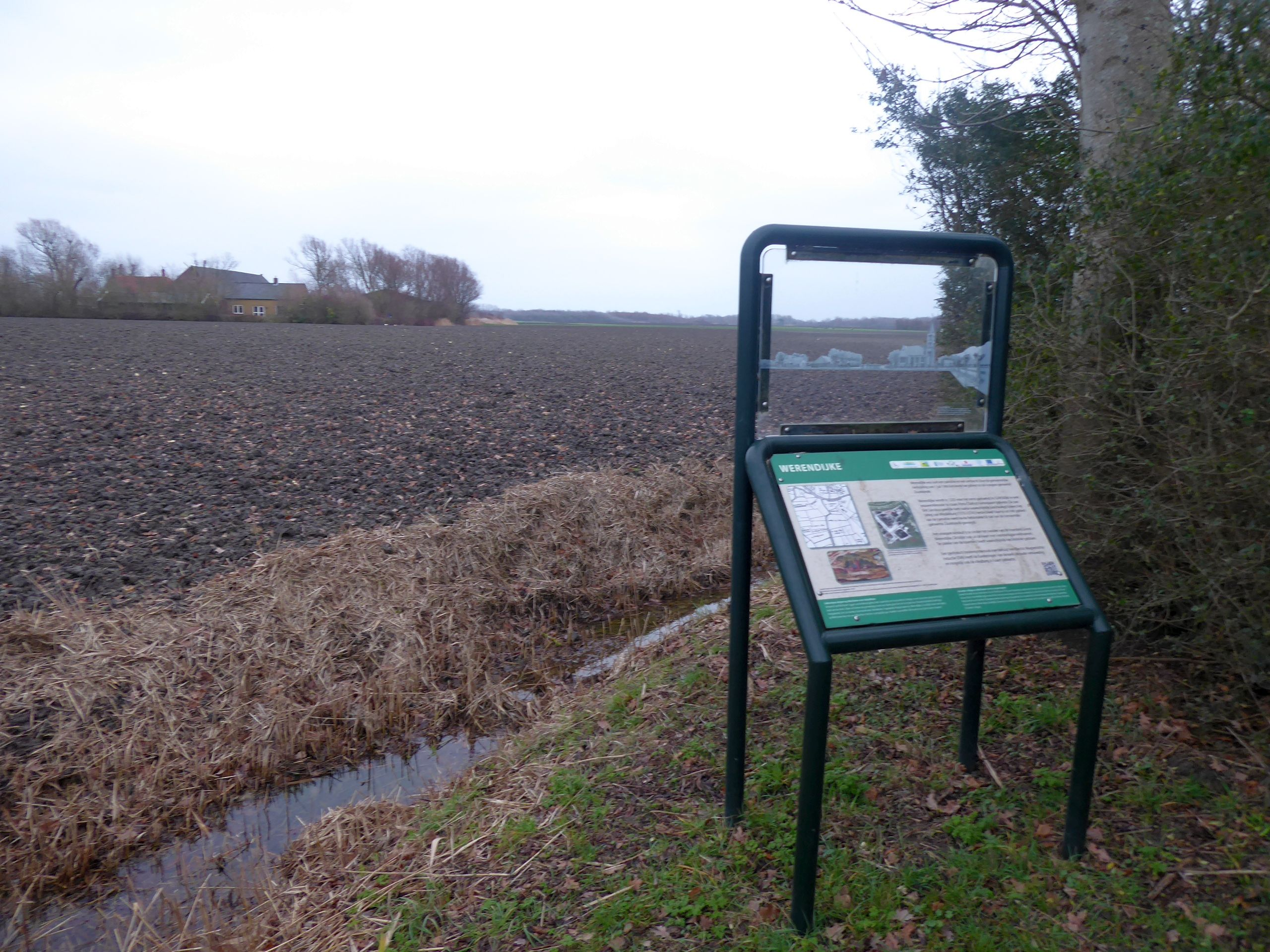 Werendijke, information sign